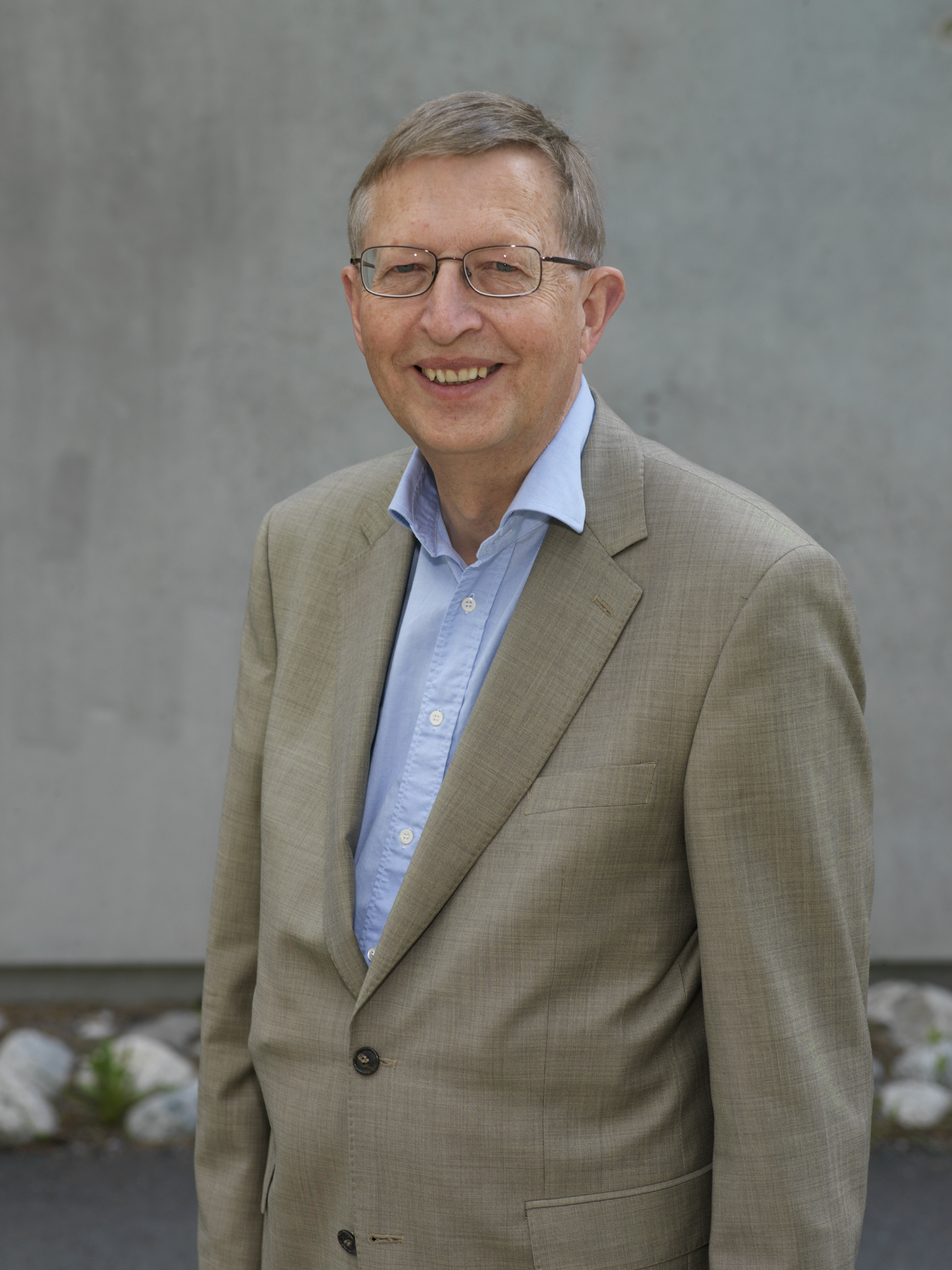 Lennart Olsen, member of the Committee for the Swedish Green Party.